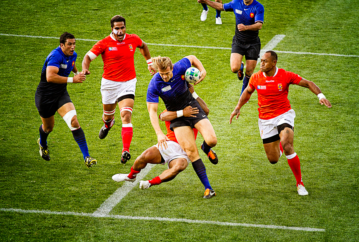 Match between France and Tonga during 2011 Rugby World Cup in New Zealand.